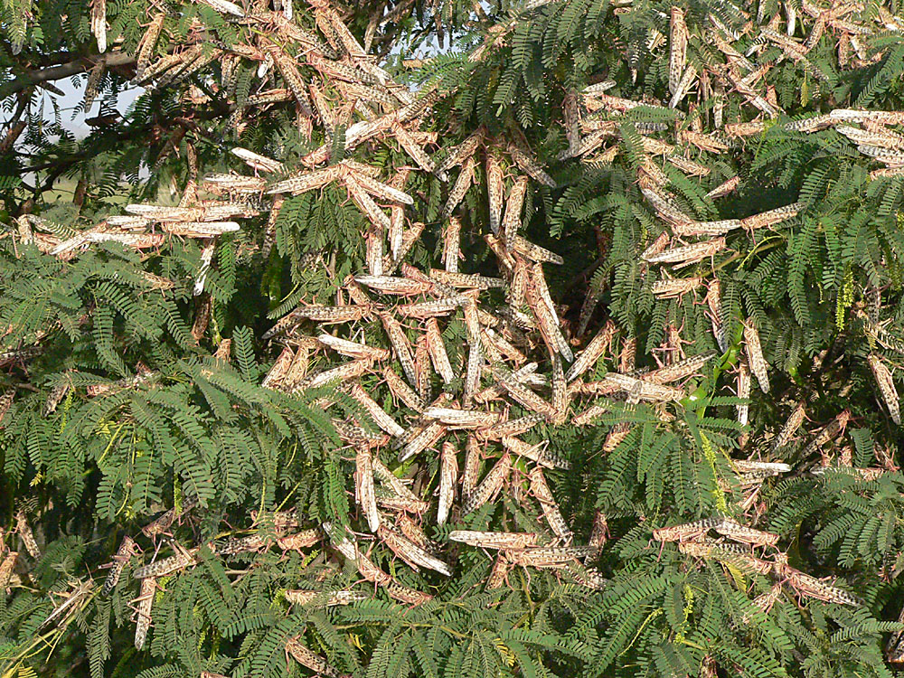 Individuals of a settled swarm of Schistocerca gregaria photographed near Aeterba, Red Sea coast, Sudan